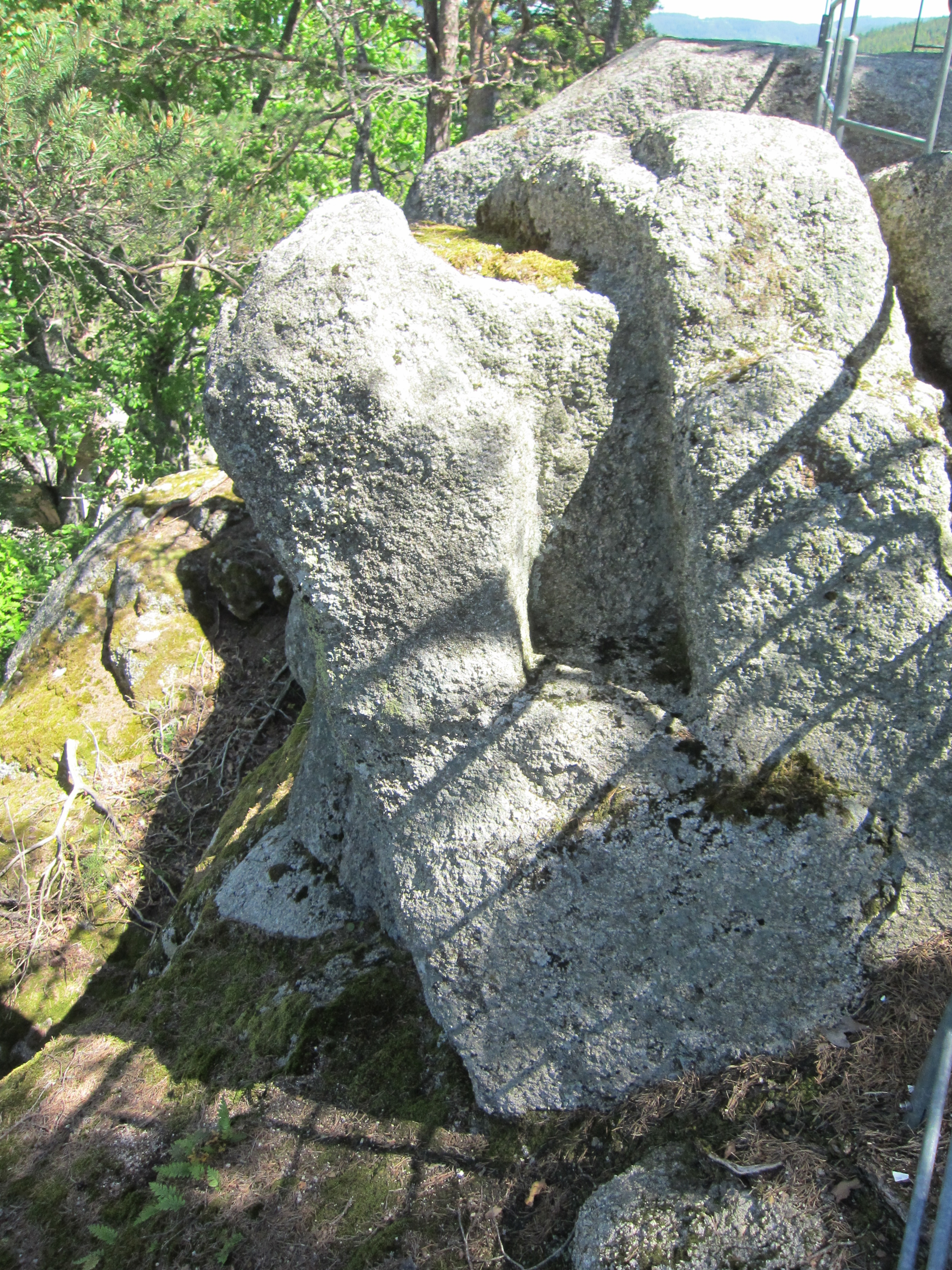 putlog hole